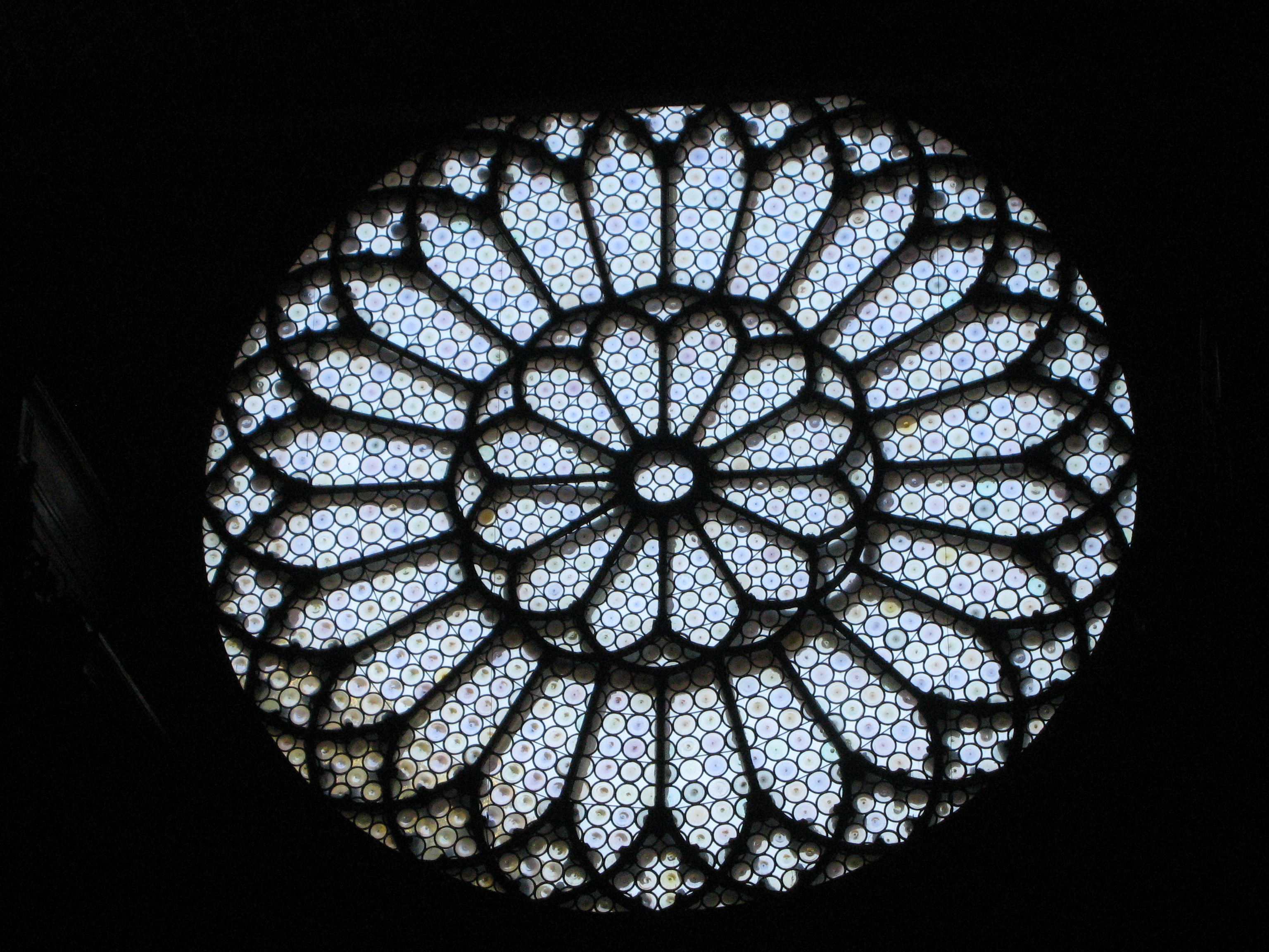 Italy - Trieste Cathedral of San Giusto